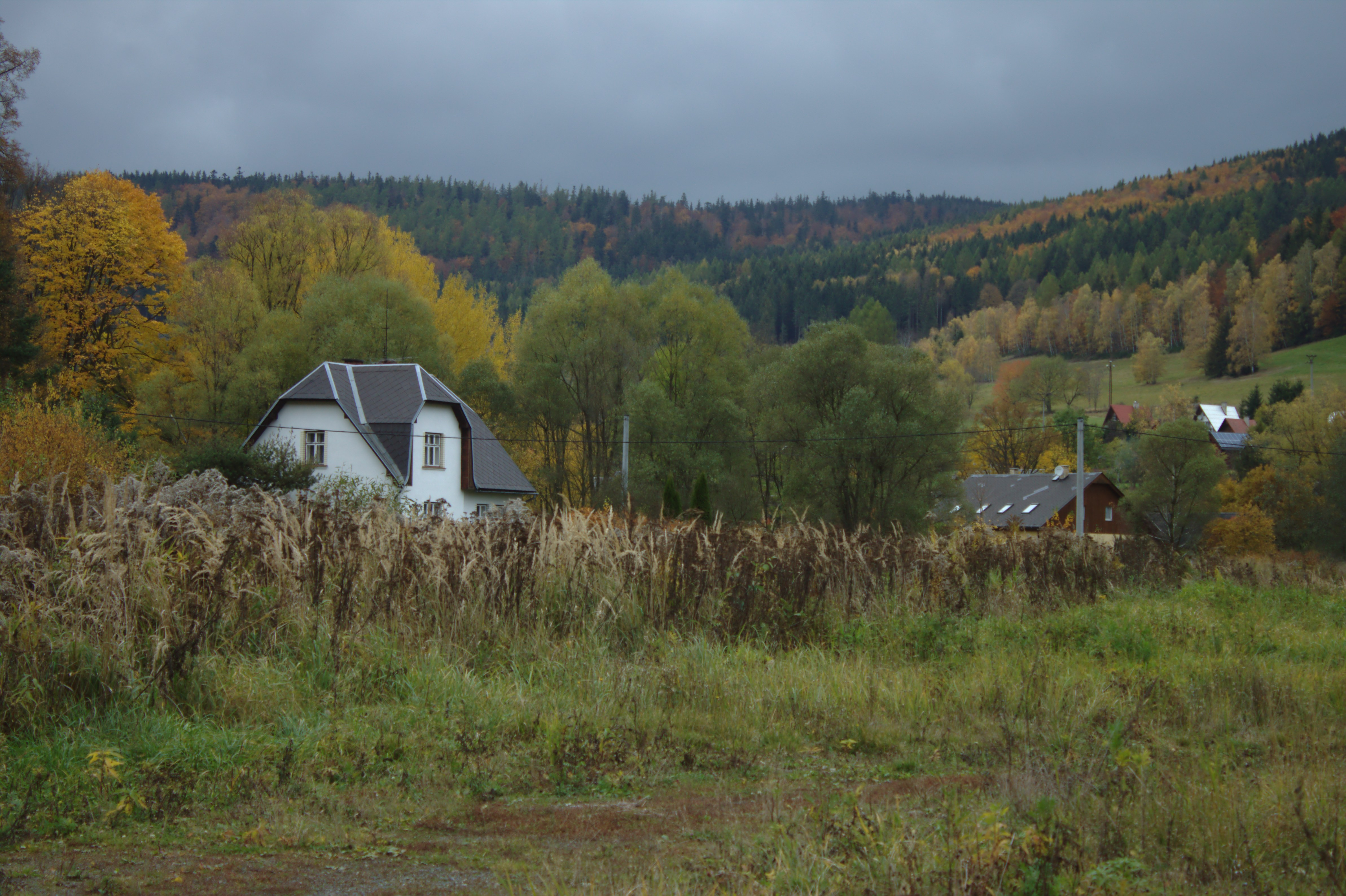 View of Zadní Ves in Nízký Jeseník, CZ